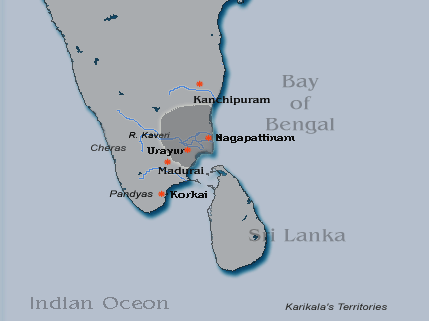 Map shows the approximate extent of Karikala's territories. (From K.A.N. Sastry's COlas, university of Madras, 1984.)